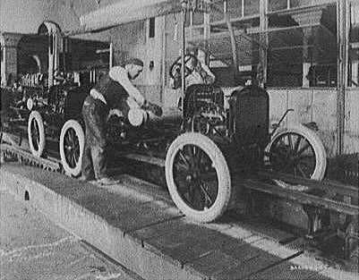 Working on the assembly line